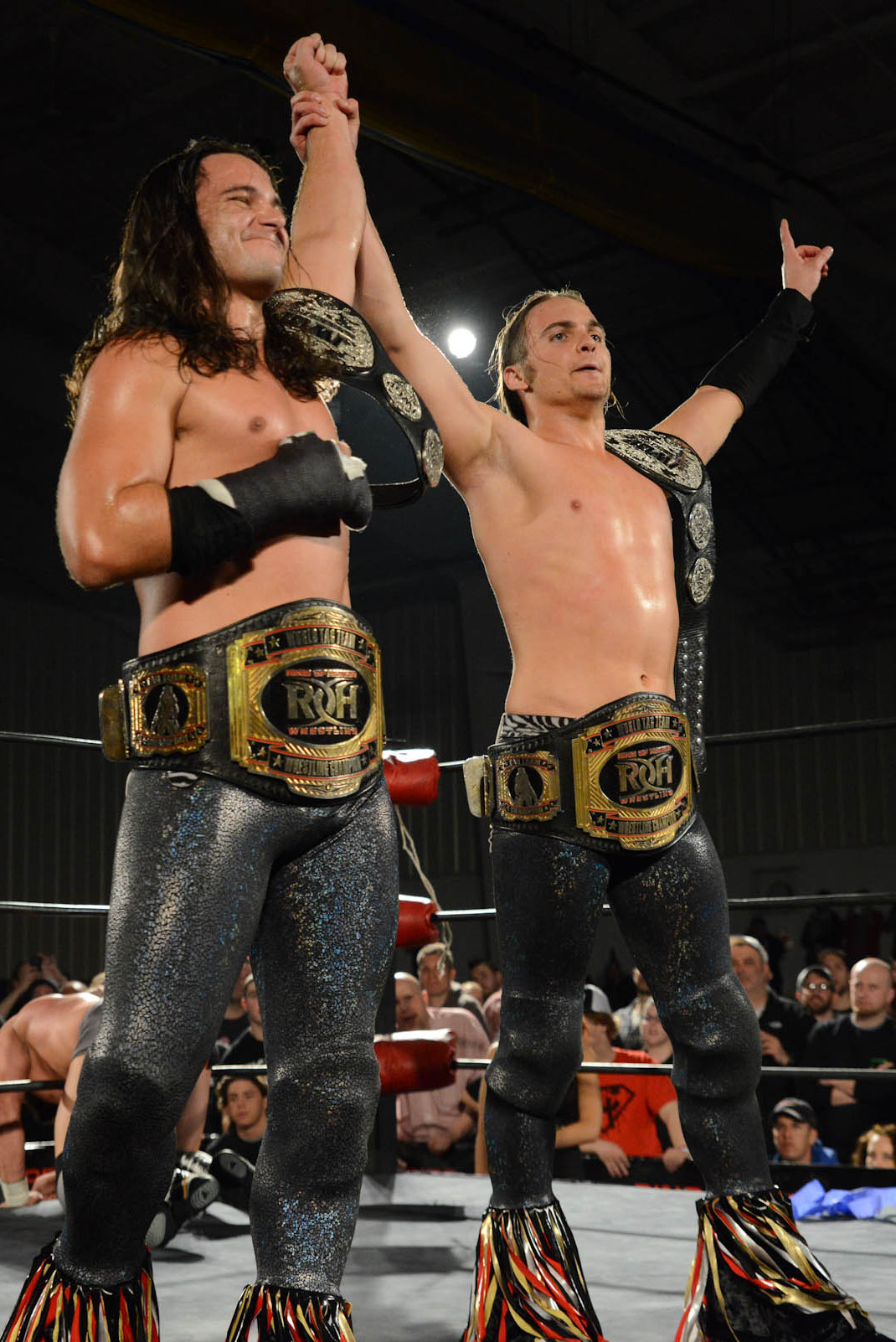 The Young Bucks (Matt Jackson, left, and Nick Jackson, right) after winning the ROH World Tag Team Championship at ROH Raising The Bar Night 2 on March 8, 2014. They are also holding the IWGP Junior Heavyweight Tag Team Championship on their shoulders. Cropped from original image.